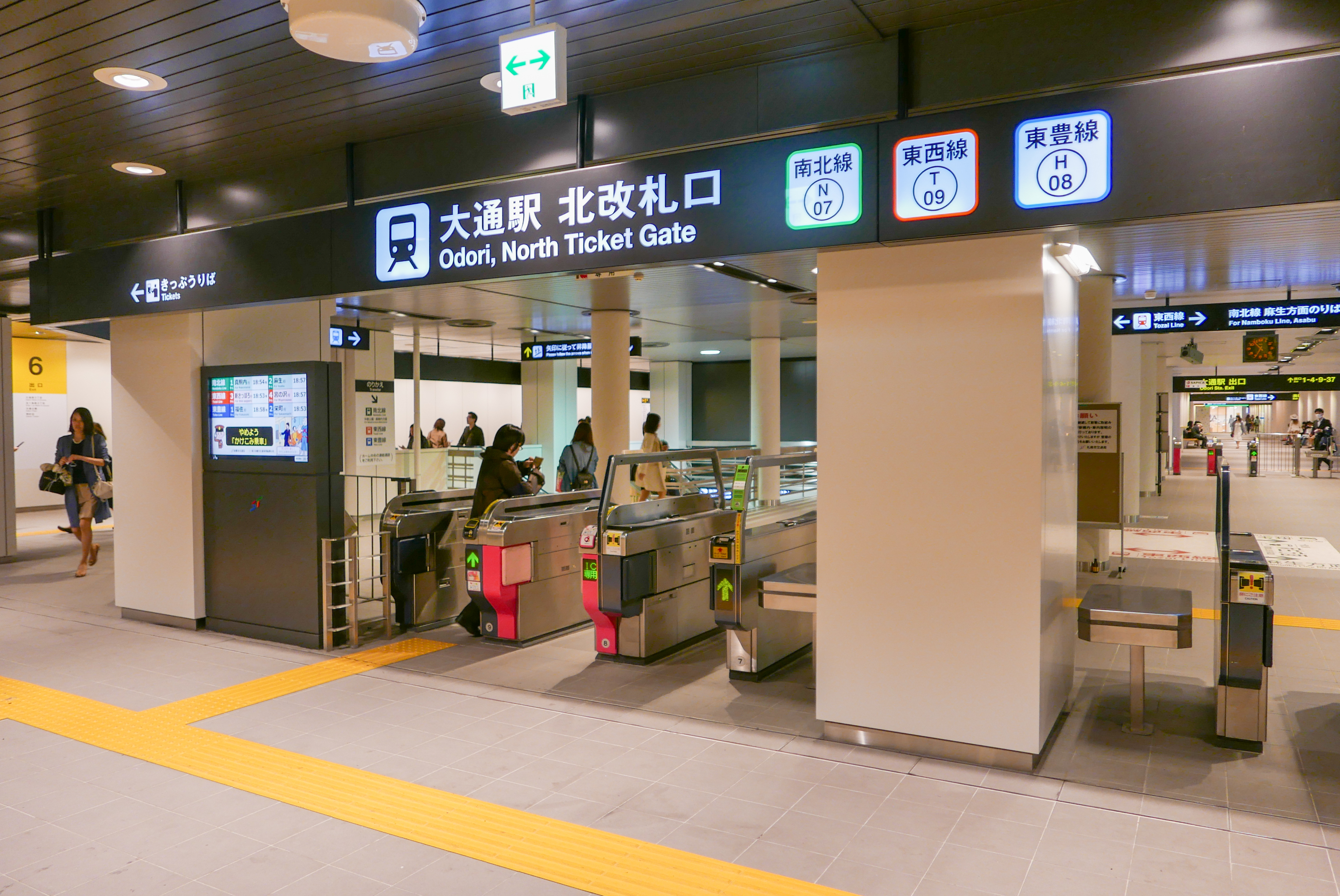 The ticket barriers at Odori Station in Sapporo, Japan